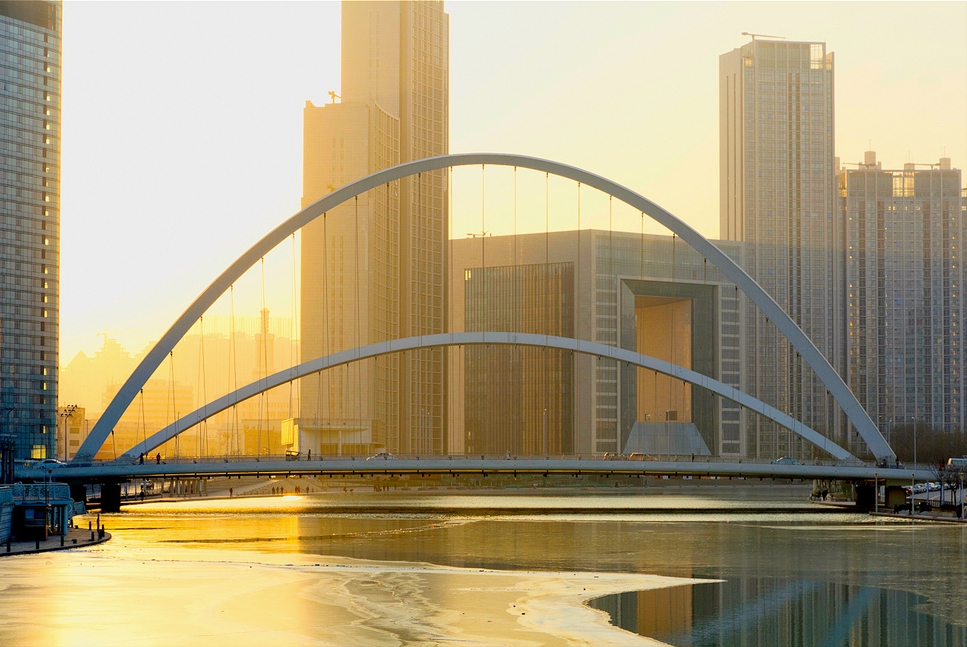 Shot at Tianjin. This is a pseudo HDR of a RAW photo. Merry Christmas! pls leave a comment (